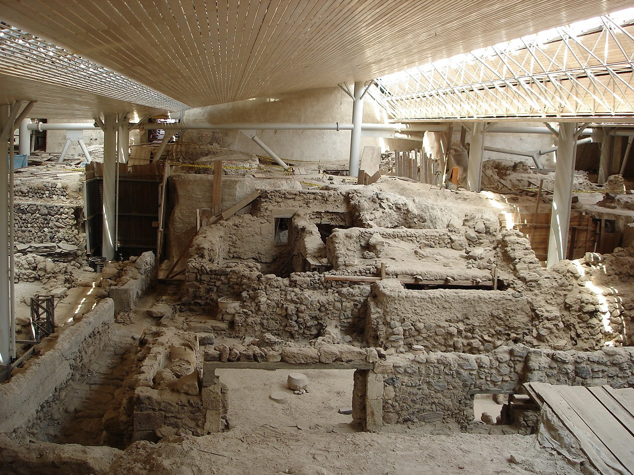 Prehistoric Site of Akrotiri. Photo by Klearchos P. Kapoutsis on July 4, 2006.